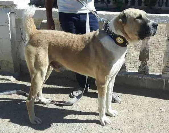 Central Asia Shepherd dog, named Balkan (Balkan, Turkmen province) Gaplaň (Tiger, breeder kennels name). Türkmençe: BALKAN GAPLAŇ. Türkmen Alabaý